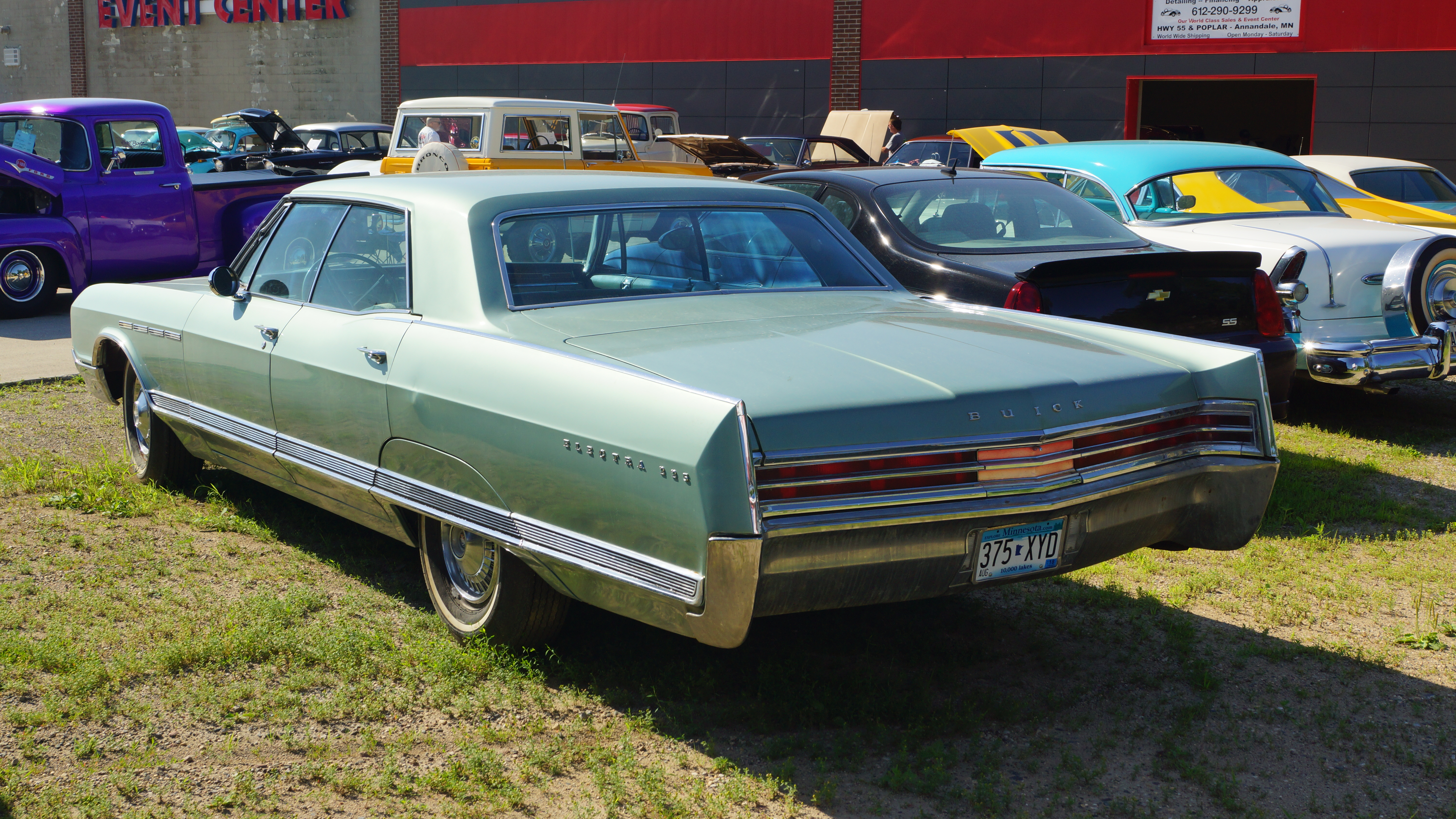 Classic Rides & Rods Classic Car Show 220 Poplar Lane Annandale, Minnesota July 8, 2018 *Click here for more car pictures by make Click here for Car Event pictures by year. Or here for my Car Crazy Tumblr site. Or on Twitter @DVS1mn.